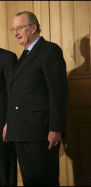 King Albert II of Belgium at the Royal Palace in Brussels.